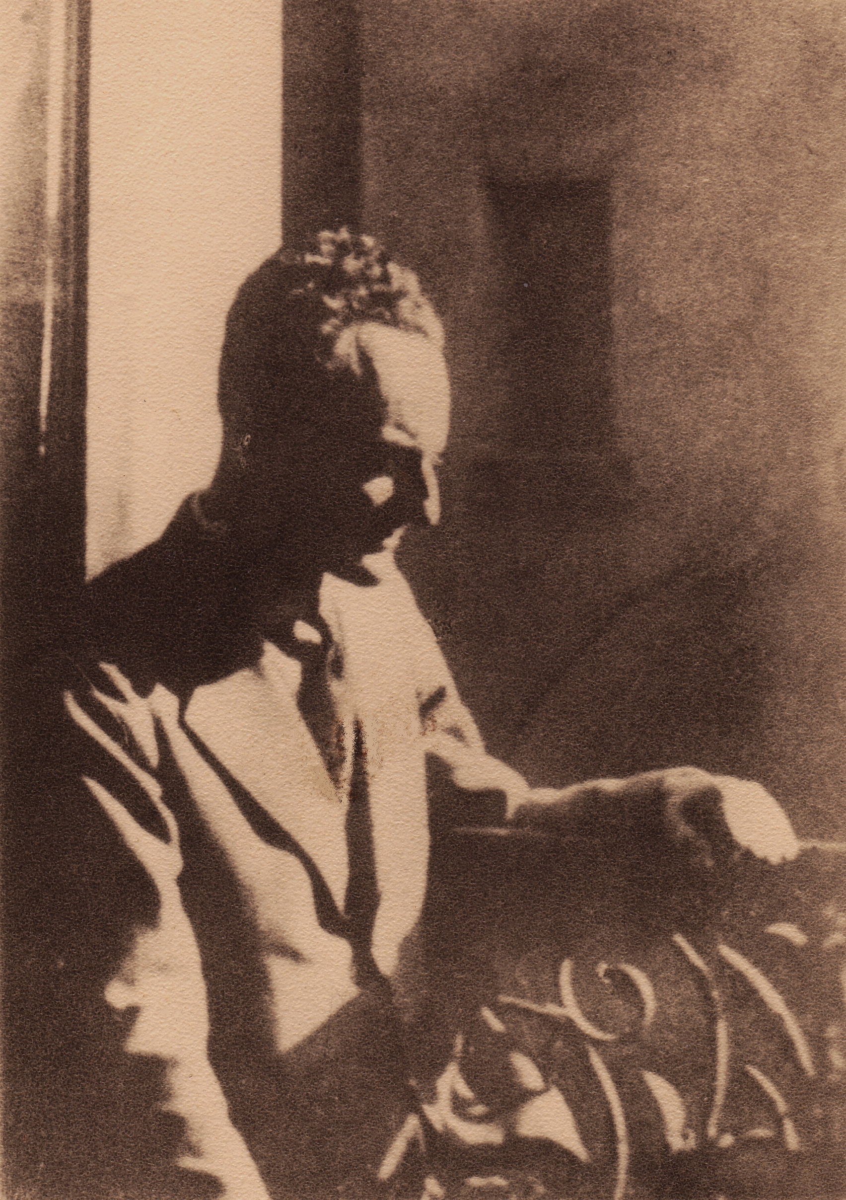 композитор И.А.Вышнеградский в Париже